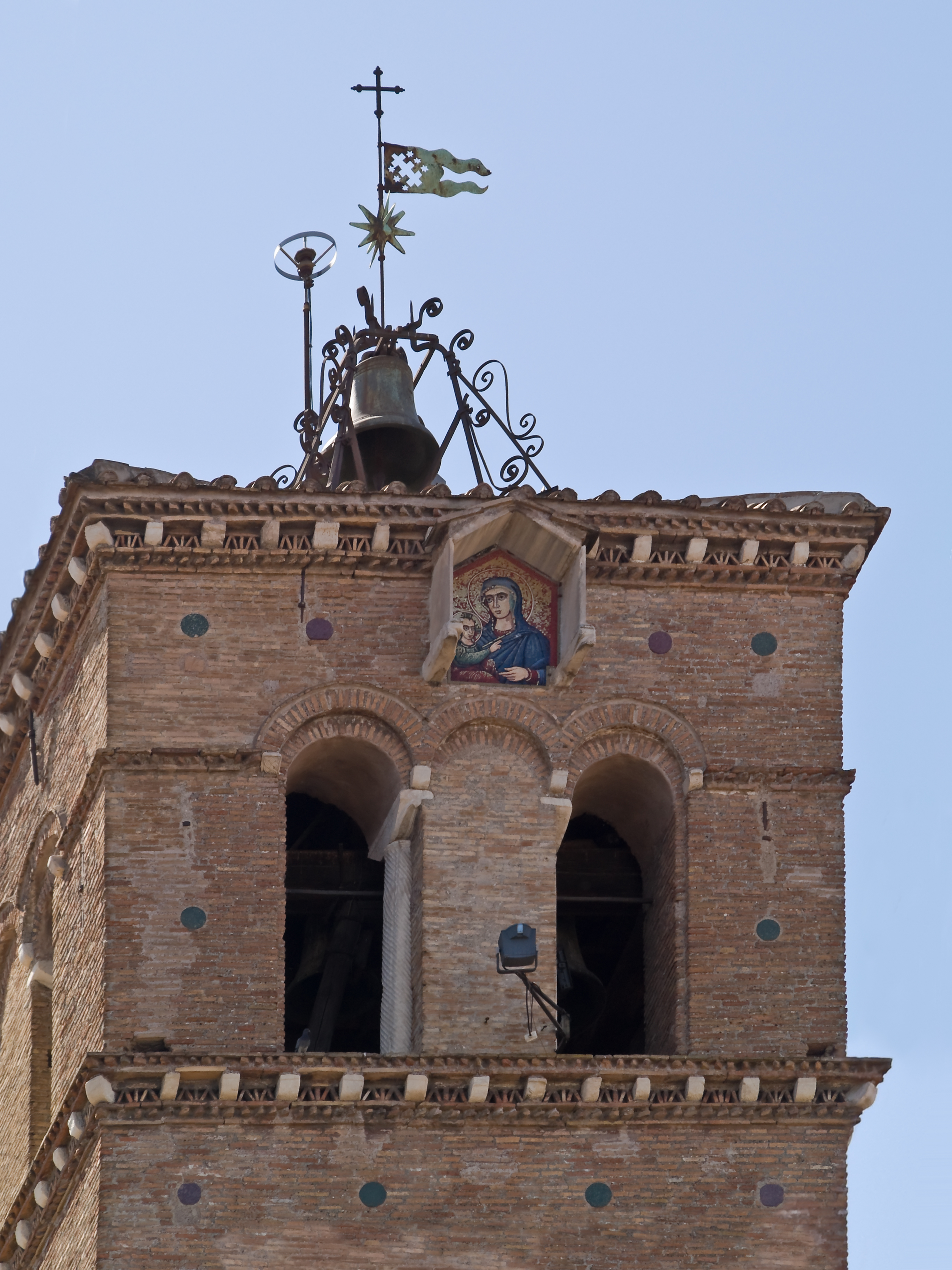 Santa Maria in Trastevere in Rome, Italy: mosaic of the Madonna and Child in a niche at the top of the Romanesque bell tower.